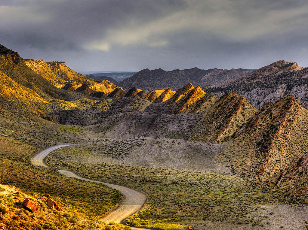 Photograph by Doug Dolde More images from this location at